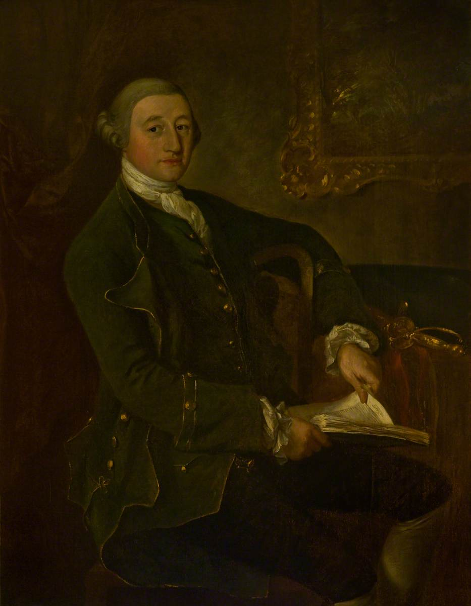 Painting of Richard Savage Nassau de Zuylestein, second son of third Earl of Rochford [1723-1780] by Thomas Gainsborough. Oil on canvas. Subject is shown in three-quarter length, wearing a green coat and vest, black breeches, white cuffs and cravat. He is seated, holding a book, with his sword on a table beside him. Set in a gilt wood frame with scrolling foliage decoration to the corners and centre of the sides of the frame.